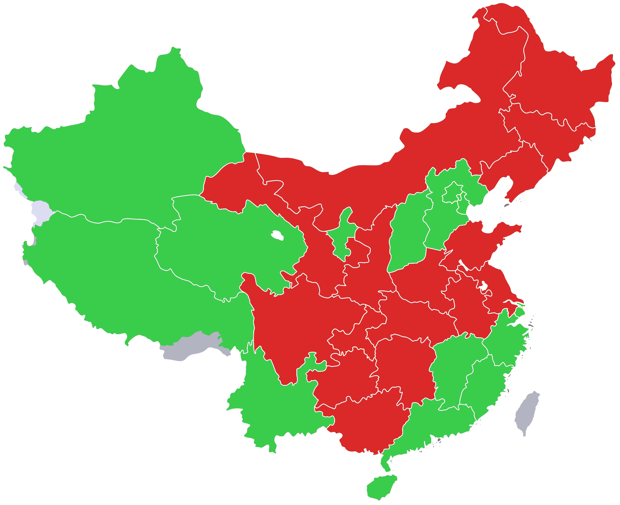 A map showing provinces whose population as a proportion of Mainland China's total population increased (green) and decreased (red). Originally based on File:China provinces numbered with regional colors.svg.